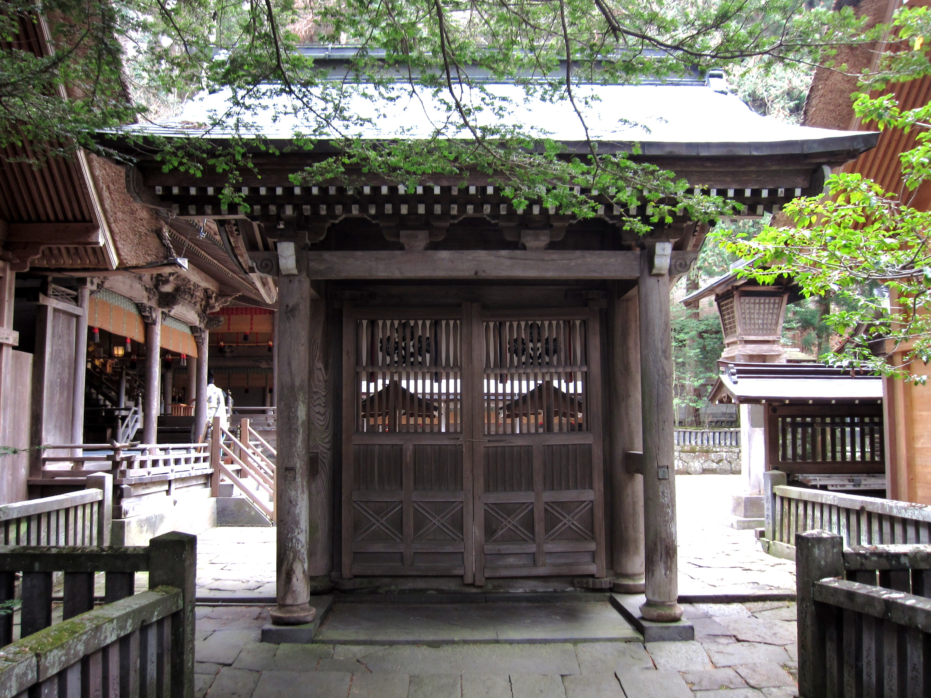 A shikyakumon (四脚門) located in the Kamisha Honmiya of Suwa-taisha. Originally uploaded in the Japanese Wikipedia by Saigen Jiro.